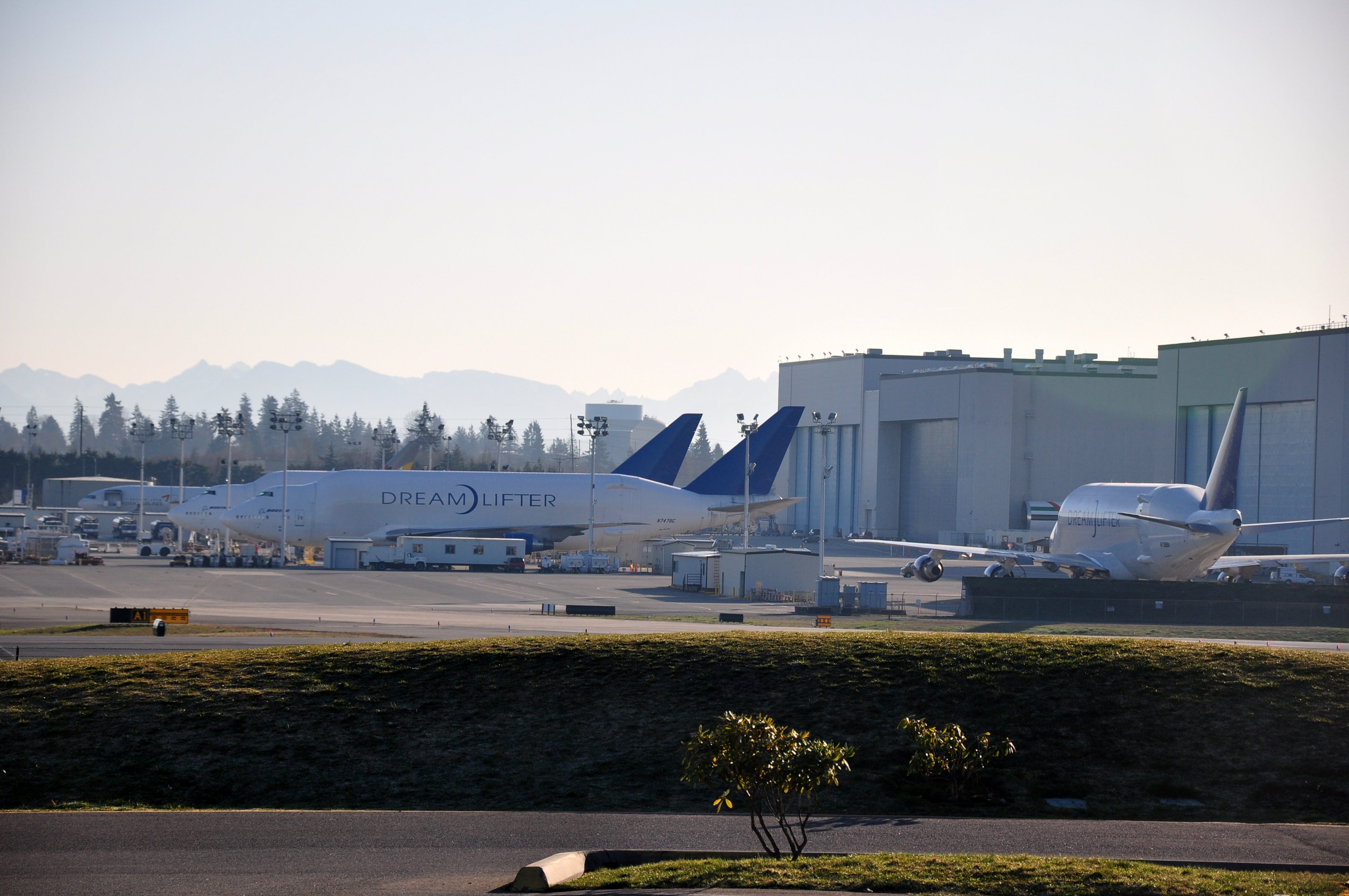 3 dreamlifters at Boeing's Everett factory